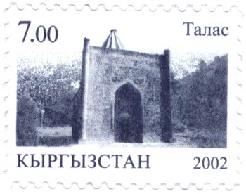 Stamp of Kyrgyzstan